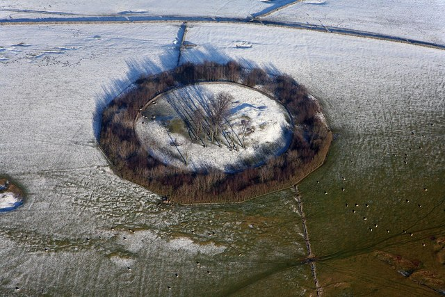 Minninglow Hill Summit Low sun across Minninglow Hill in January 2009